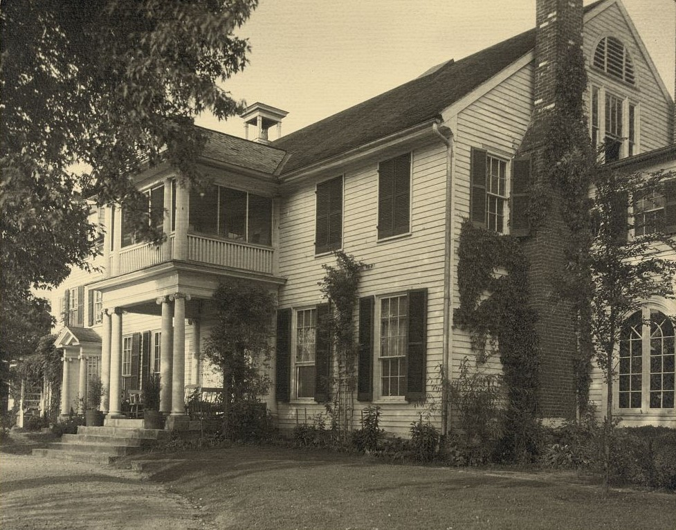 Title Belmont, west front, Falmouth Summary Photograph shows an exterior, west front view of Belmont, the home of artist Gari Melchers, in Falmouth, Virginia. Contributor Names Johnston, Frances Benjamin, 1864-1952, photographer Created / Published [between 1925 and 1929] Subject Headings - Melchers, Gari,--1860-1932--Homes & haunts - Houses--Virginia--Falmouth--1920-1930 - Porticoes (Porches)--Virginia--Falmouth--1920-1930 Format Headings Gelatin silver prints--1920-1930. Notes - Title from item. - Forms part of: Frances Benjamin Johnston Collection (Library of Congress). - Original negative: LC-J7-VA-B2780 Medium 1 photographic print : gelatin silver ; 28 x 35.5 cm (11 x 14 in.) Call Number/Physical Location LOT 2501, no. 201 [P&P] Repository Library of Congress Prints and Photographs Division Washington, D.C. 20540 USA Digital Id ppmsca 17595 //hdl.loc.gov/loc.pnp/ppmsca.17595 Library of Congress Control Number 2009633436 Reproduction Number LC-DIG-ppmsca-17595 (digital file from original item) Rights Advisory No known restrictions on publication. Online Format image Description 1 photographic print : gelatin silver ; 28 x 35.5 cm (11 x 14 in.) | Photograph shows an exterior, west front view of Belmont, the home of artist Gari Melchers, in Falmouth, Virginia. LCCN Permalink